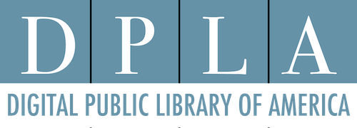 Logo of the Digital Public Library of America consisting of two color tones and signature text.